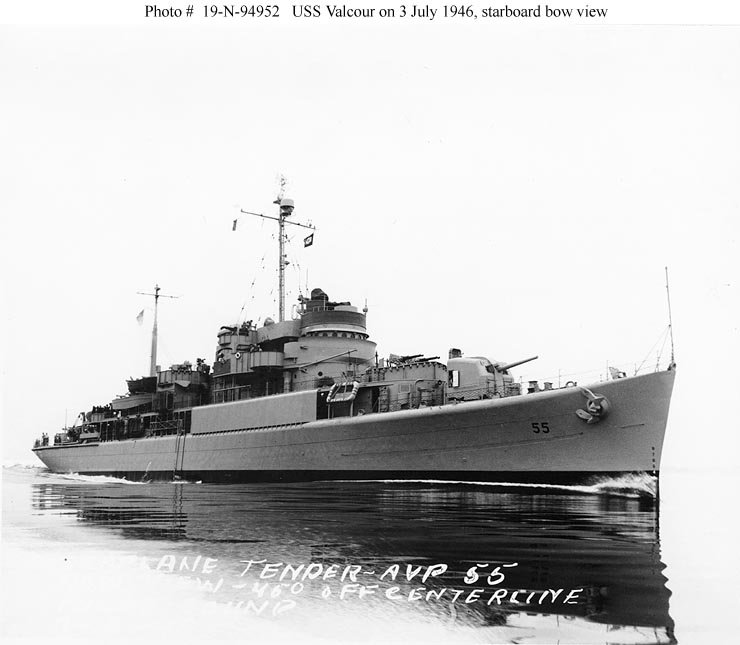 United States Navy seaplane tender USS Valcour (AVP-55) Underway in Puget Sound on 3 July 1946, two days before commissioning.